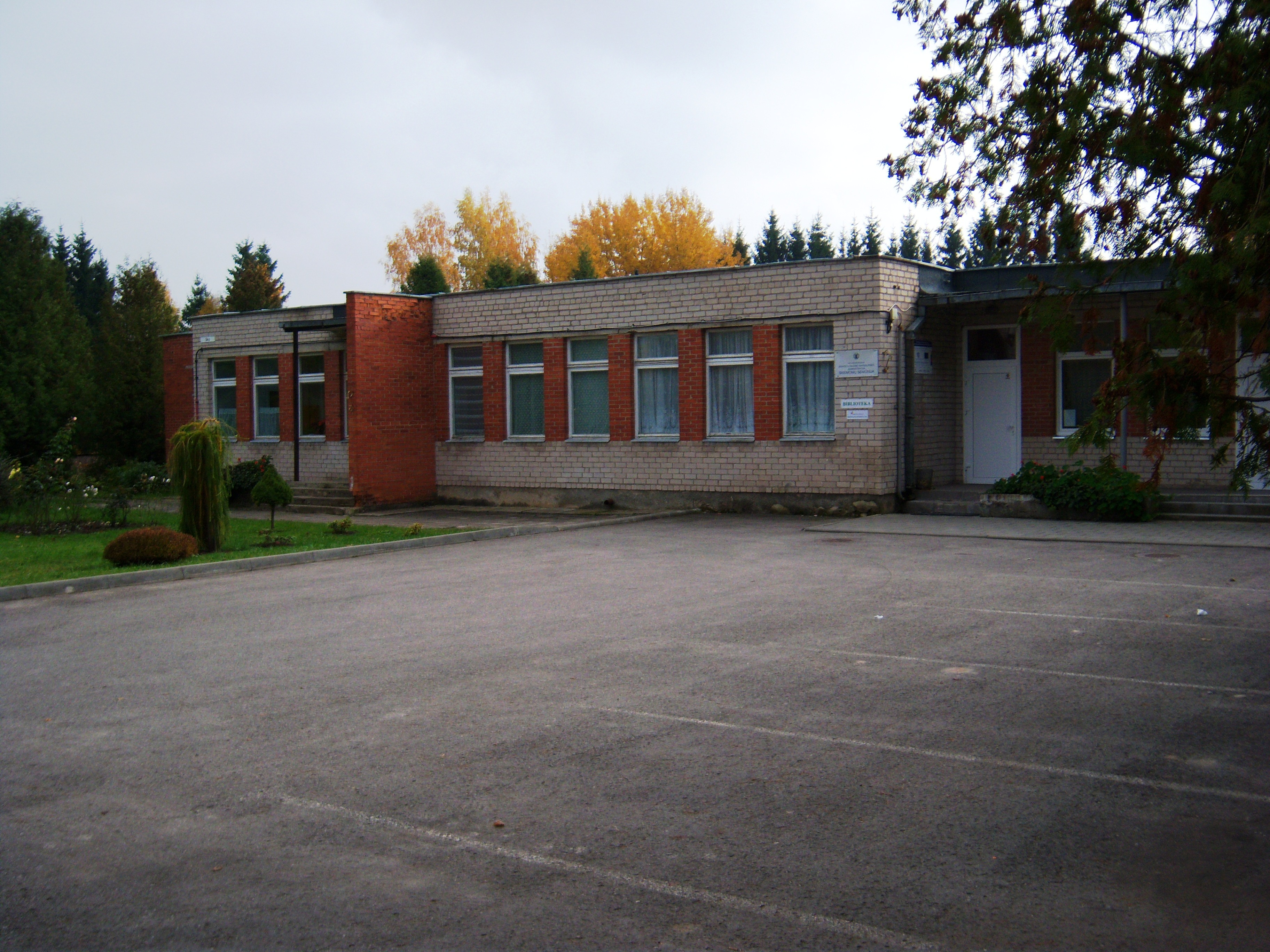 Skiemonys Eldership, Anykščiai District, Lithuania